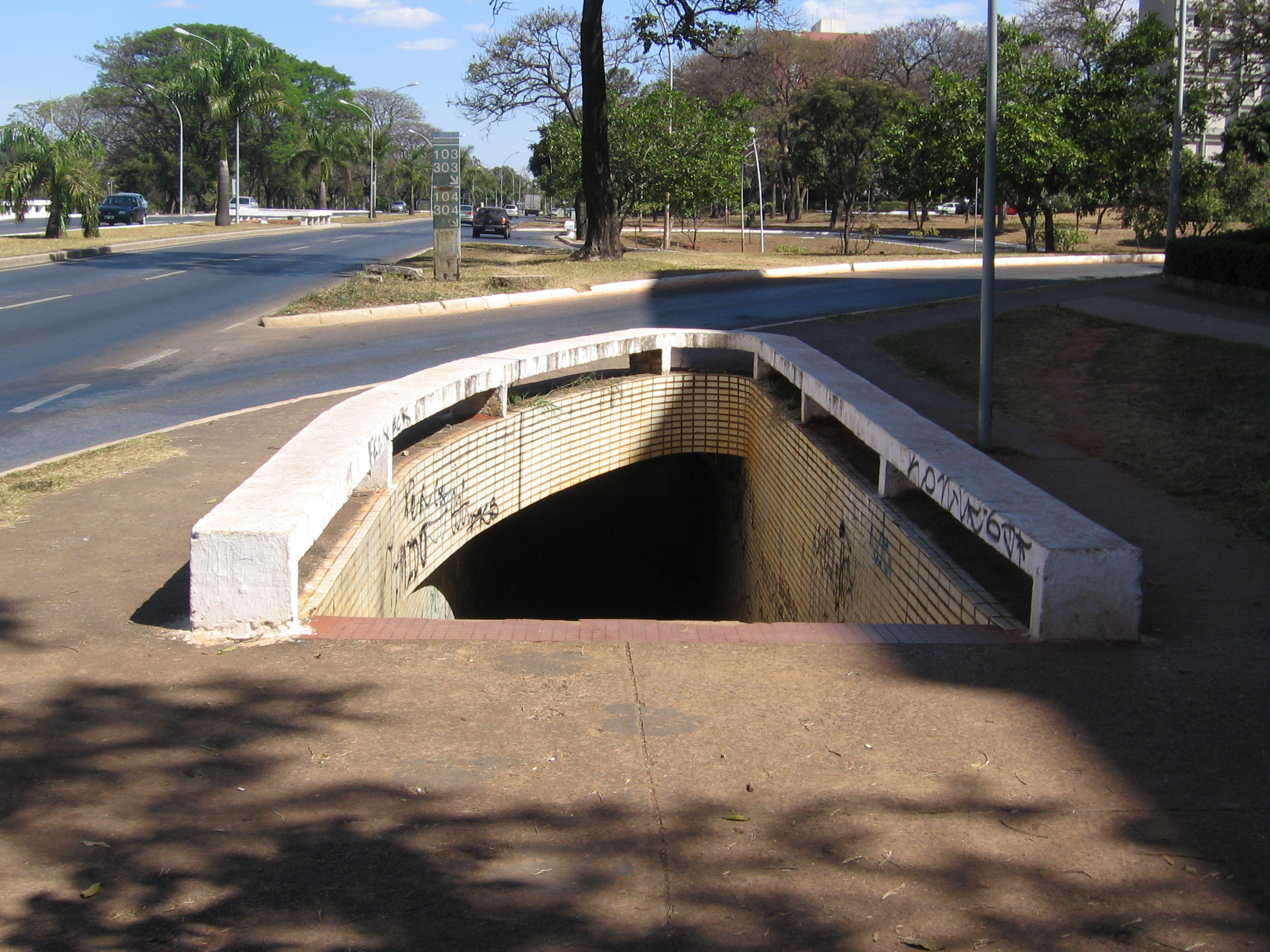 Entrance to the Brasília underpass that links the 103 South Square to the 203 South Square (bypassing the main rodoviary axis above)